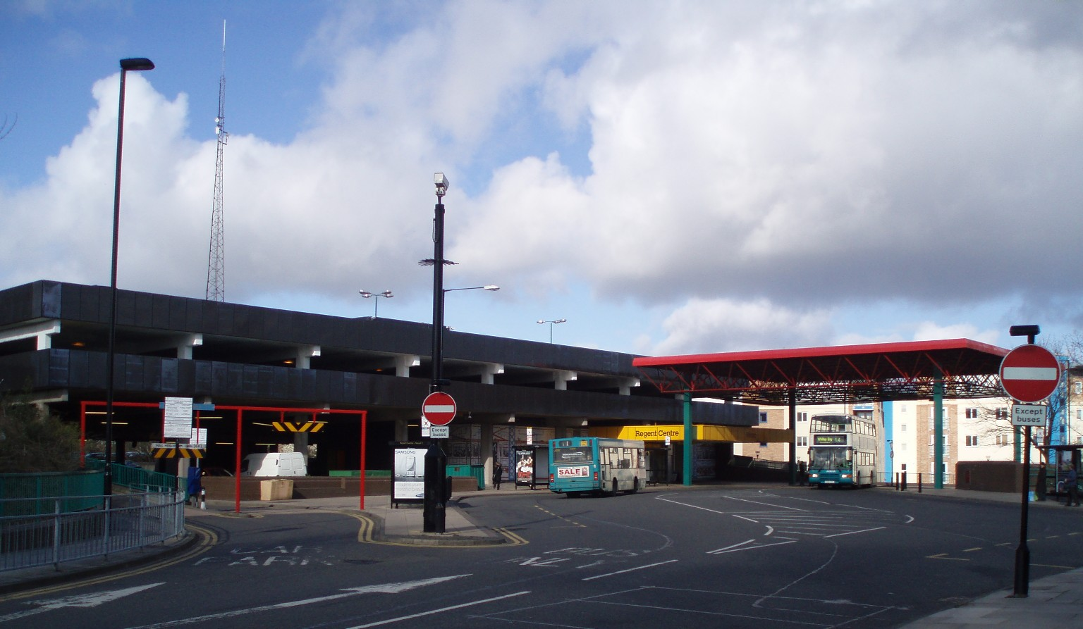 Regent Centre Metro/Bus Station, Gosforth, Newcastle Upon Tyne, England, UK